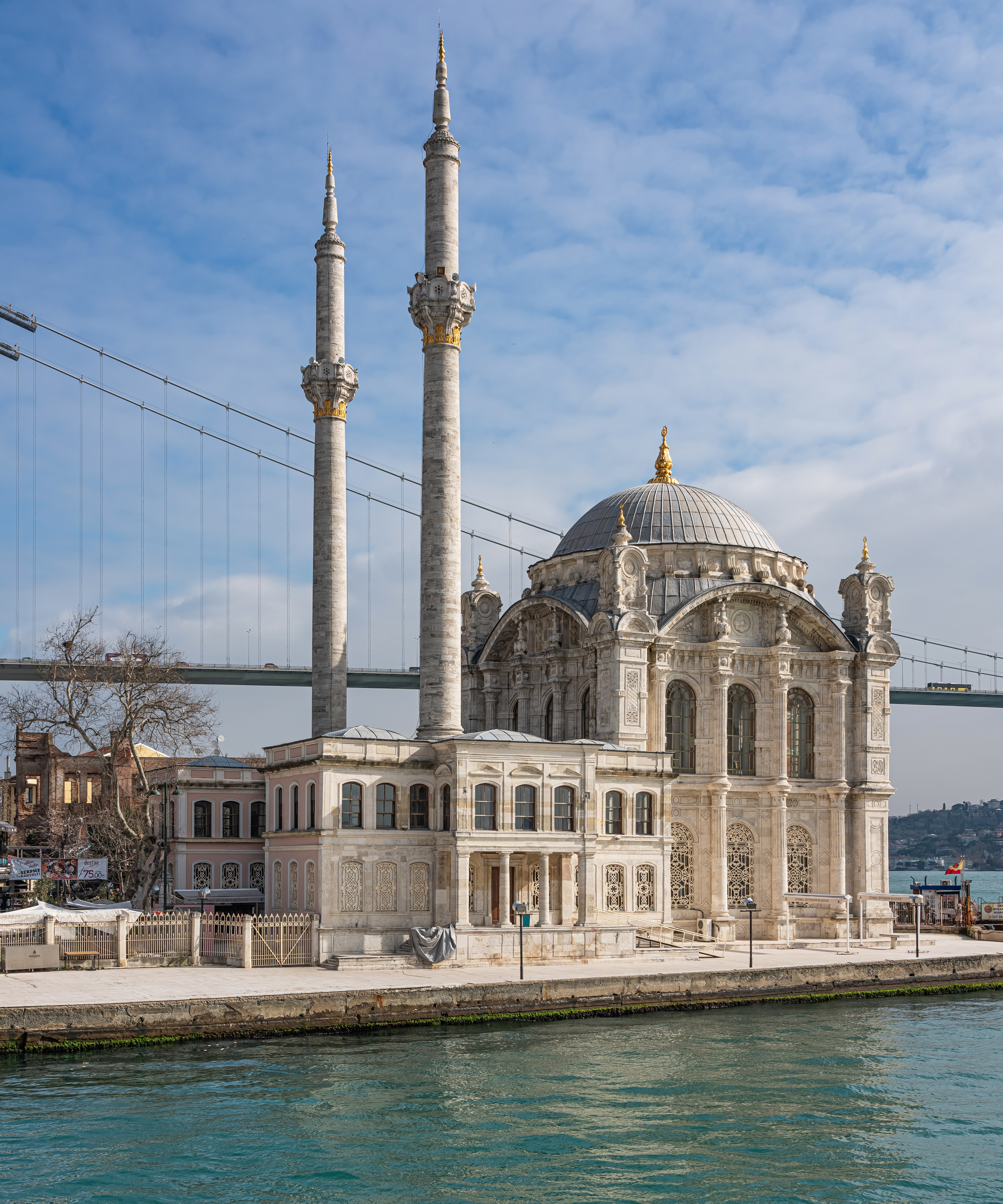 Ortaköy Mosque in Istanbul, Turkey